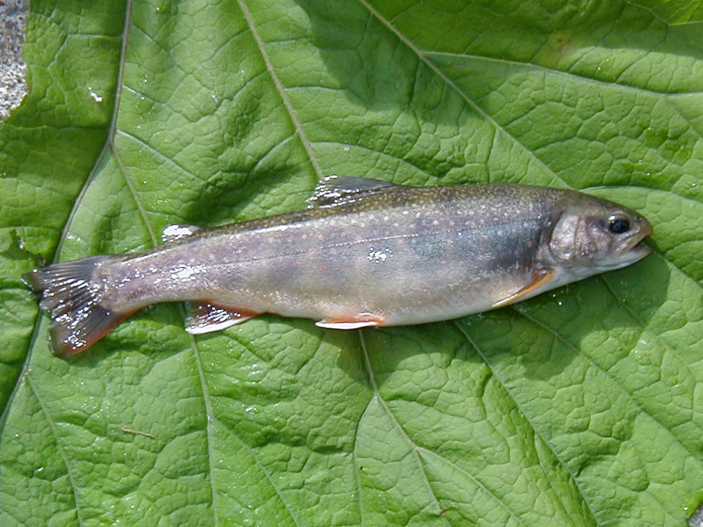 Salvelinus malma malma